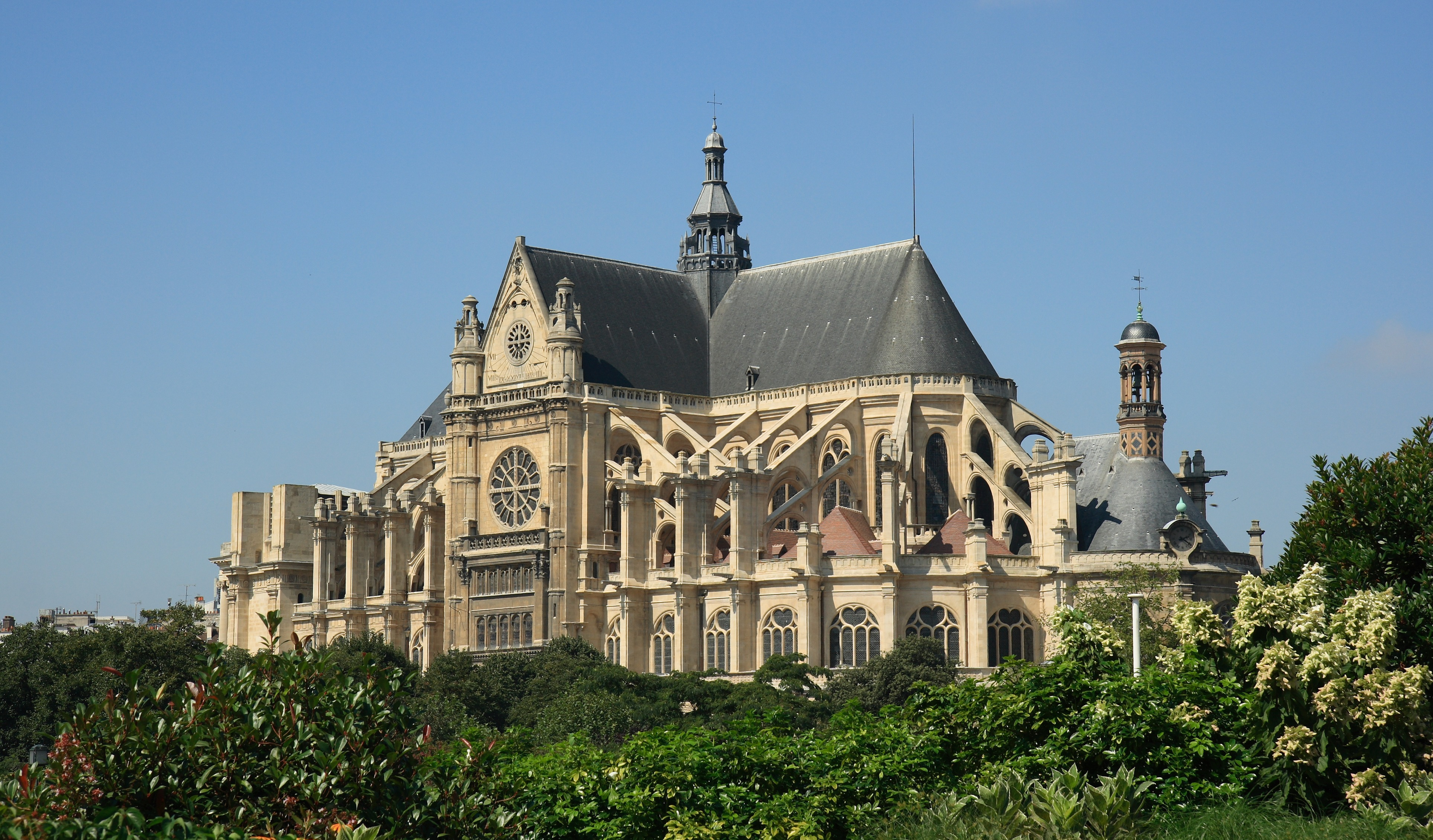 Saint Eustache church, in Paris